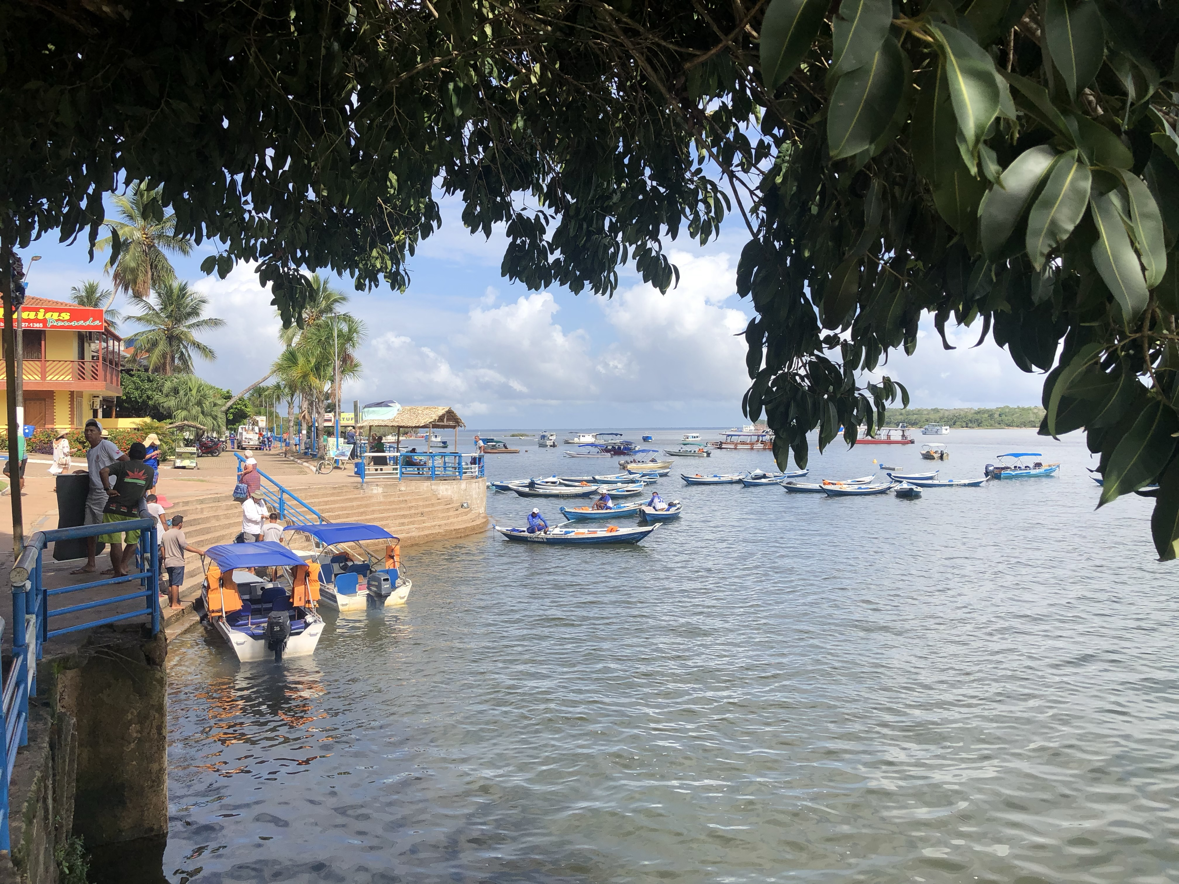 Alter do Chão, Brazil - Central Town boat landing